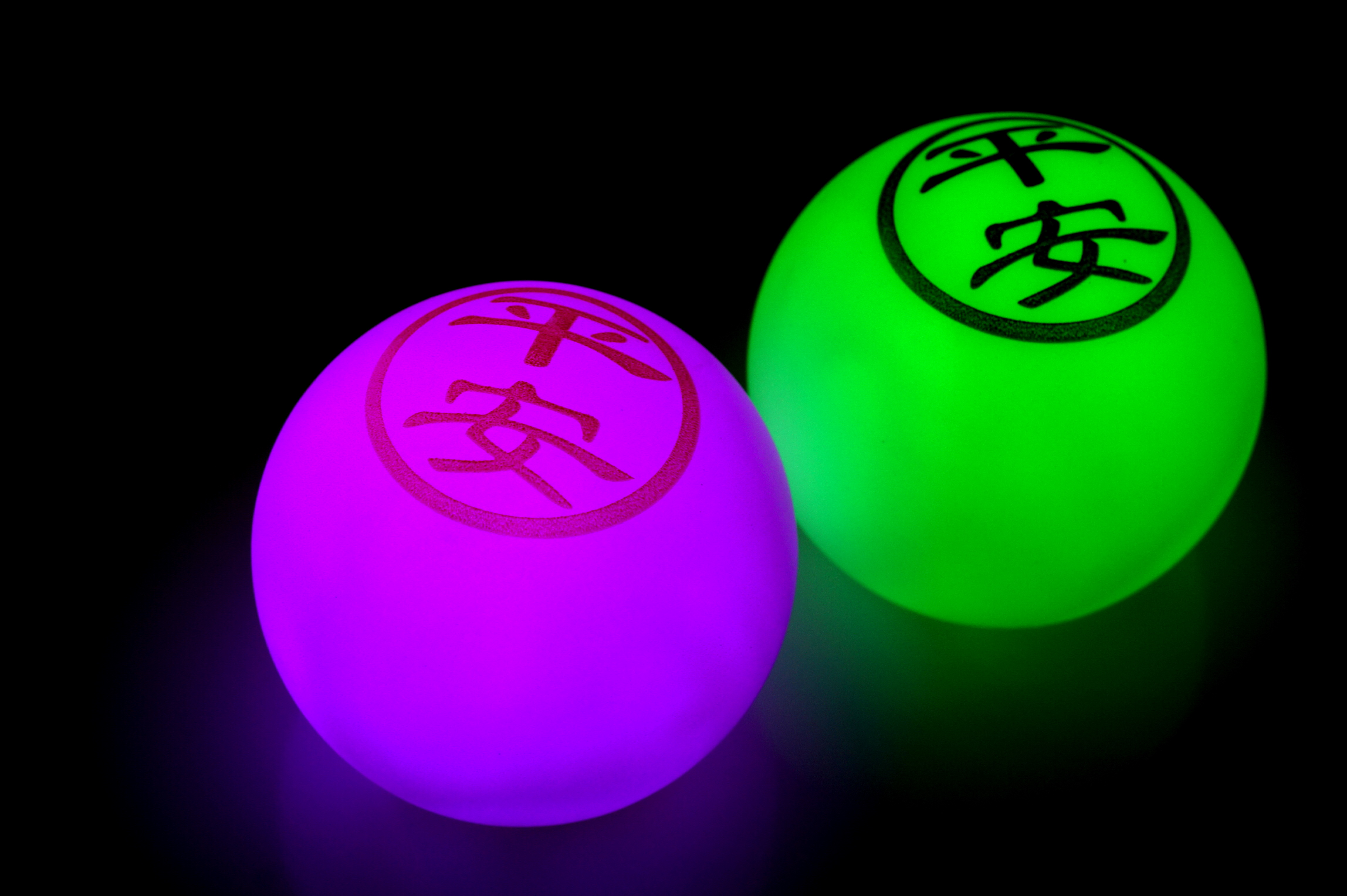 Cheung Chau lucky bun LED lamp. An appearance-imitating derivative product of Cheung Chau lucky bun.